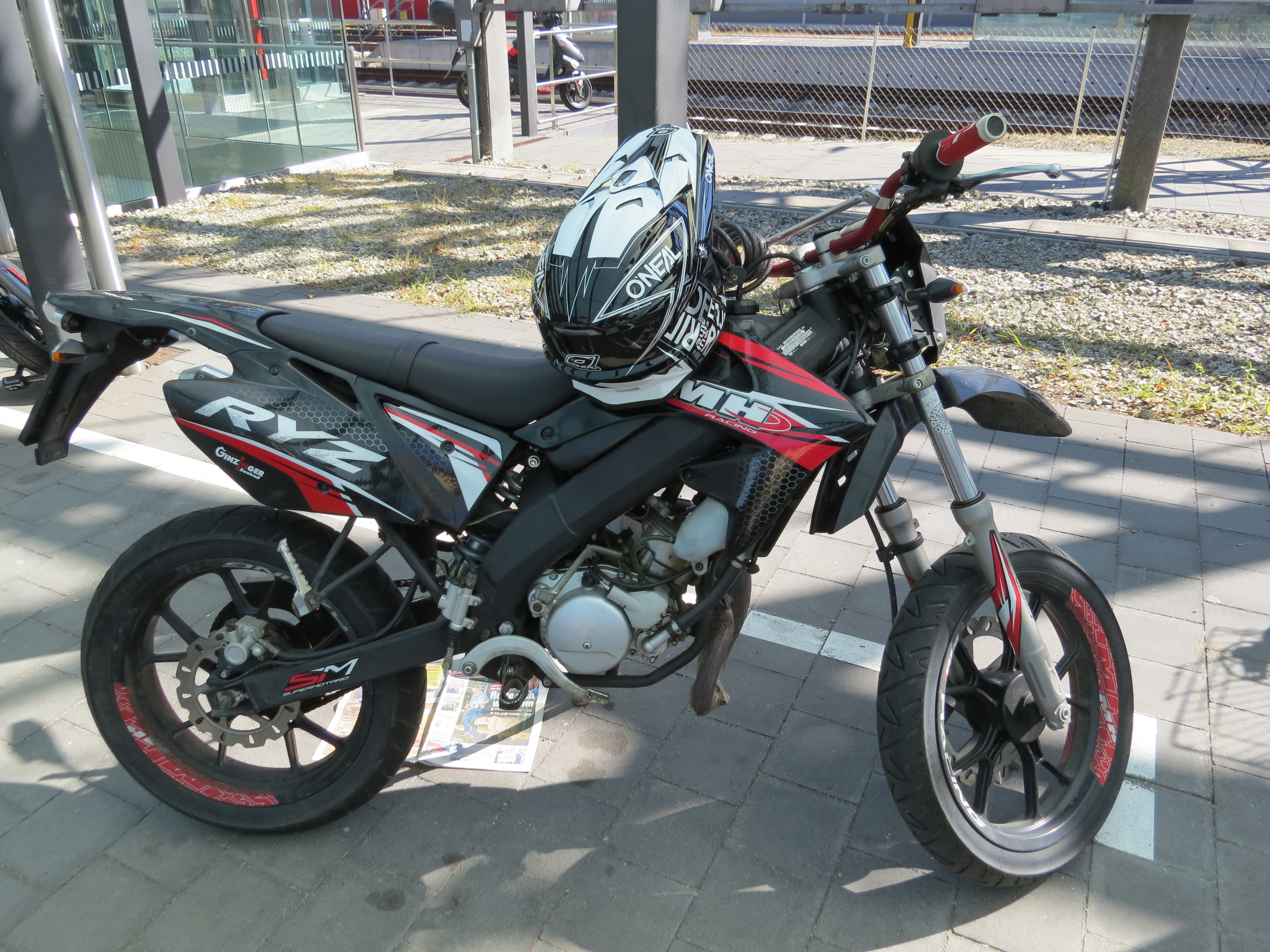 Motorhispania RYZ 50 at Bahnhof Herzogenburg, Austria